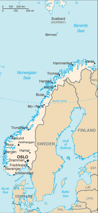 A map of Norway, showing major cities.